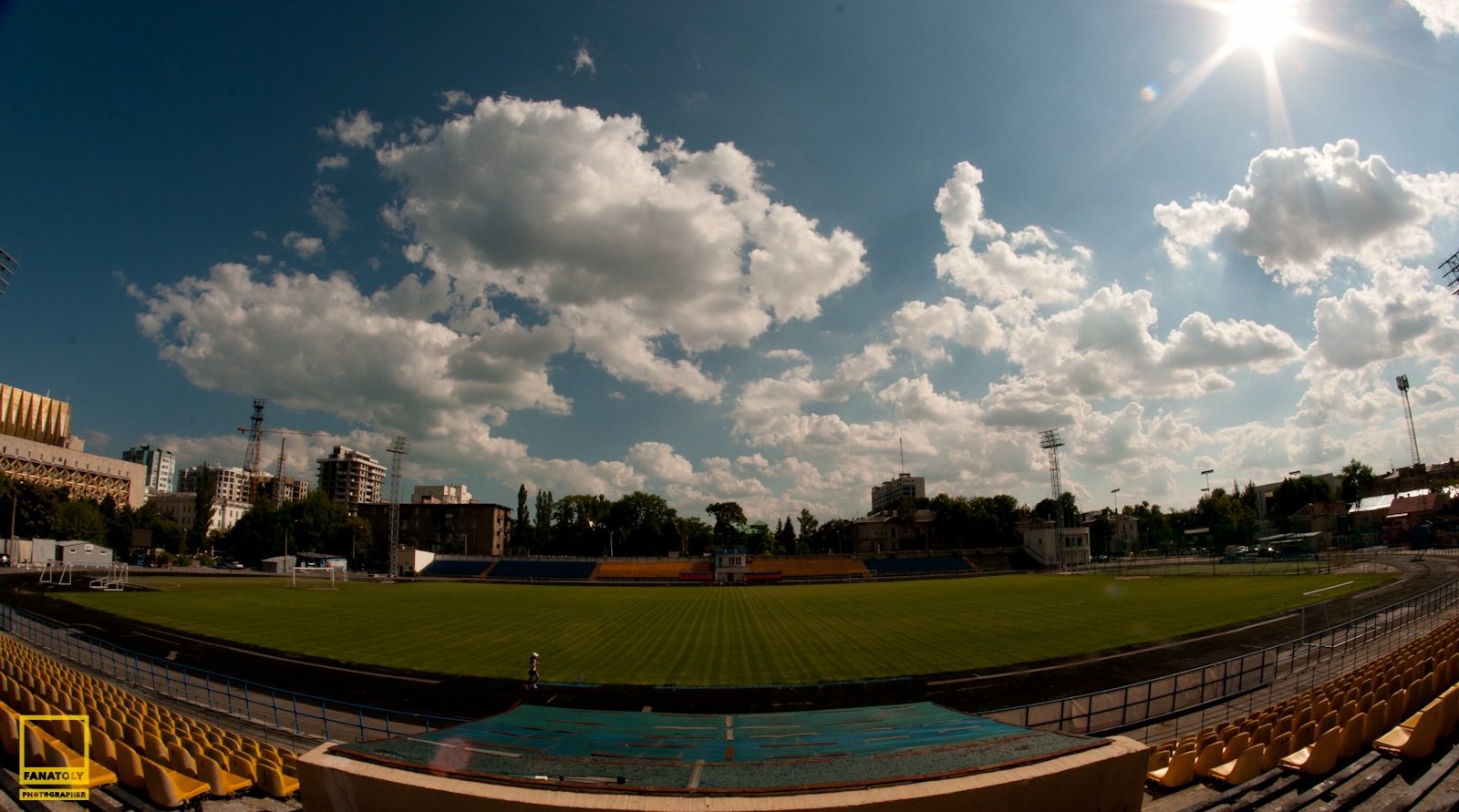 Spartak stadium, Odessa(Ukraine)